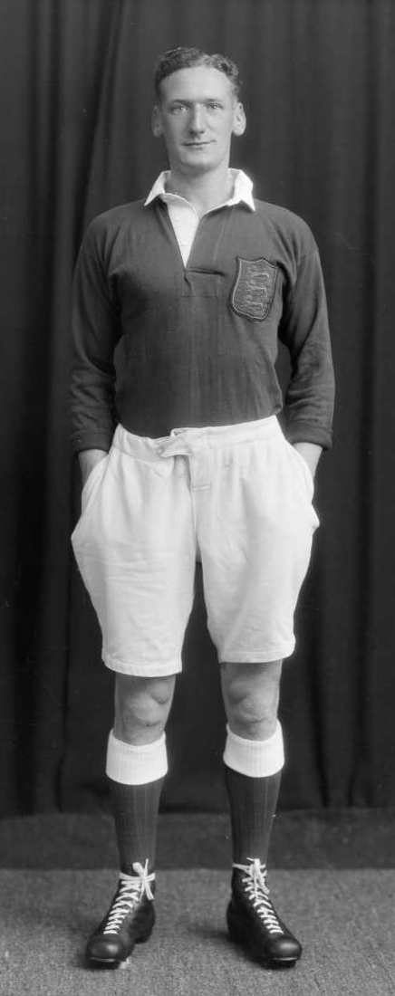 H Wilkinson, member of the British Lions rugby union team